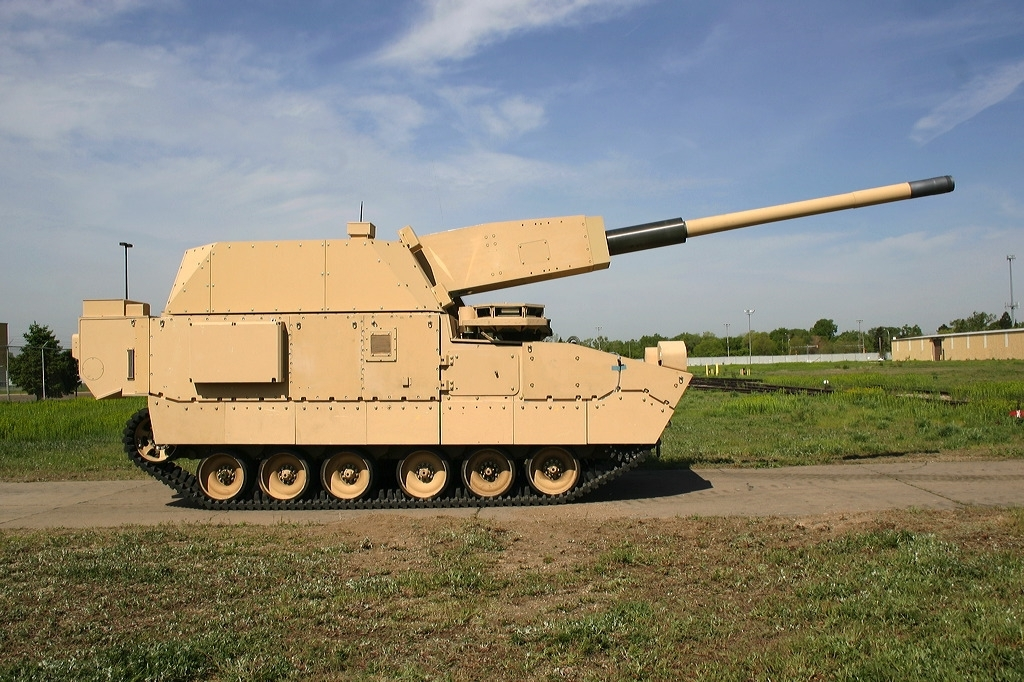 Prototype 1 of the Non-Line Of Sight-Cannon, NLOS-C